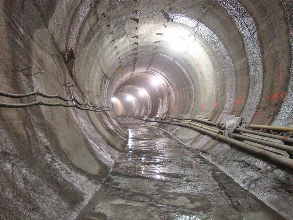 Work continues on the Second Avenue Subway. This photo shows the tunnel near 64th Street as of January 11, 2012.